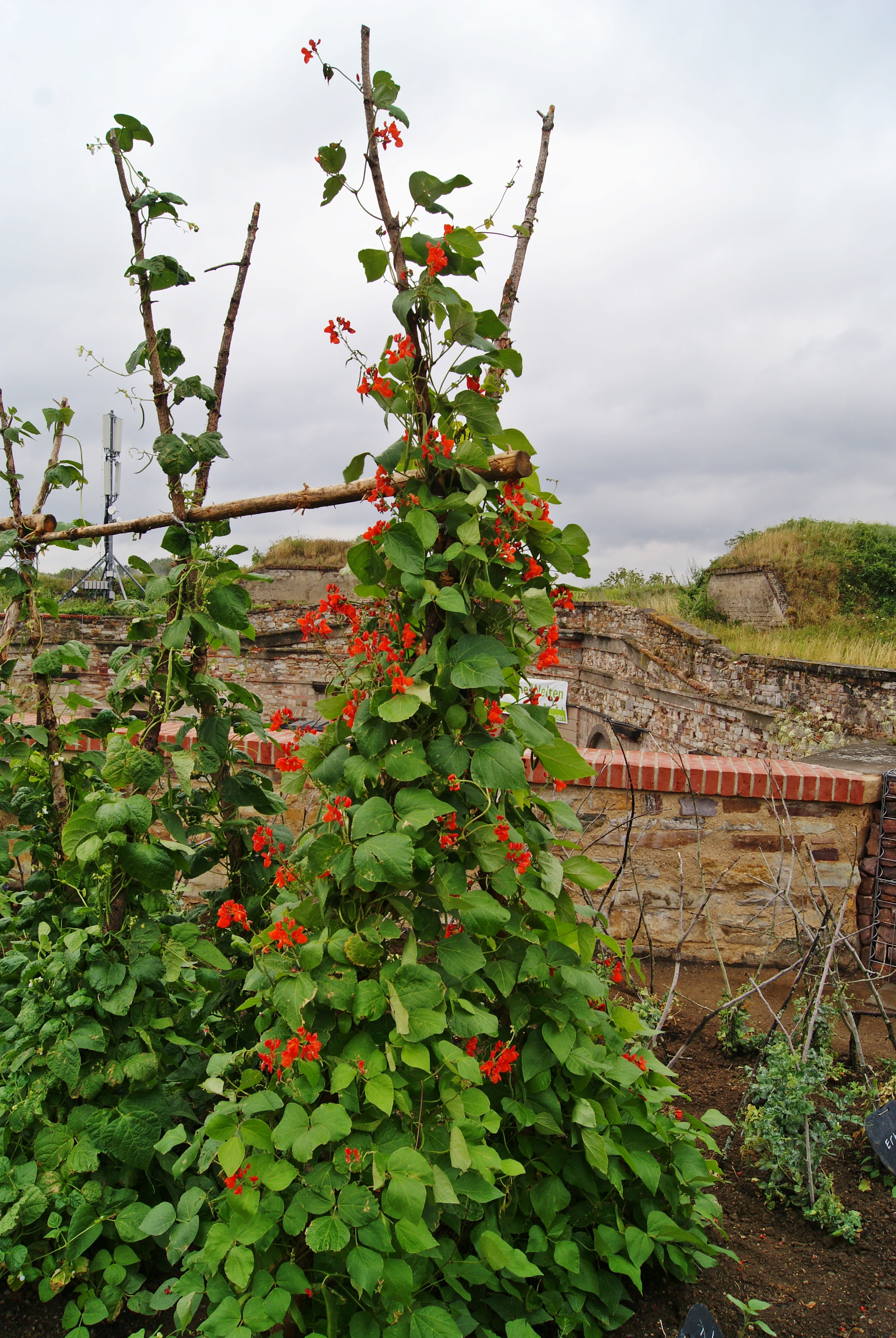 Phaseolus coccineus